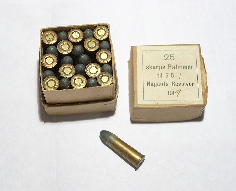 Ammunition for the Norwegian Nagant M1893 revolver - 7.5mm Nagant